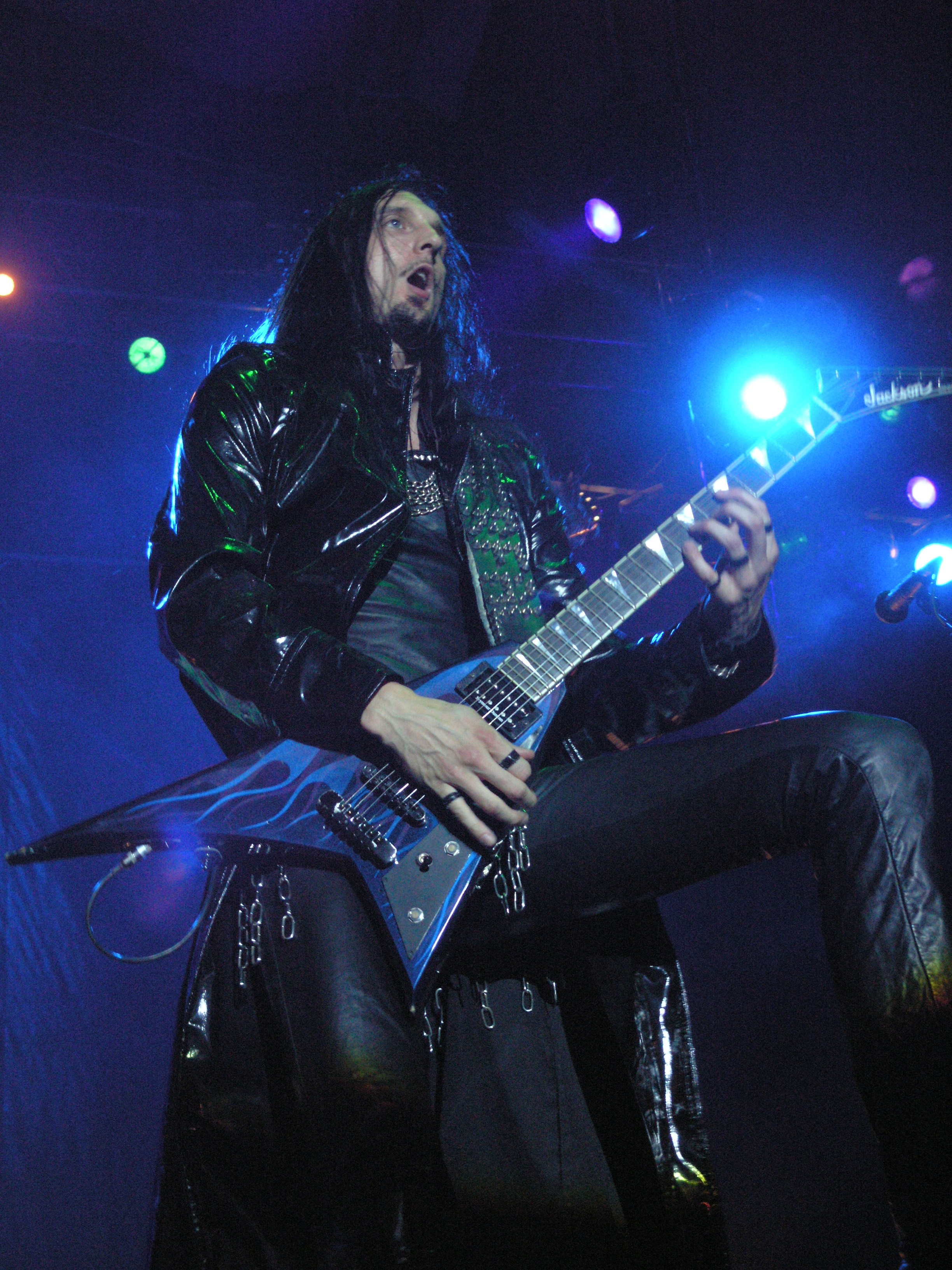 Oscar Dronjak from Hammerfall during Masters of Rock 2007 festival